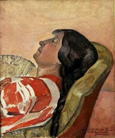 portrait of Jean Marchand (1883-1940) signé 'J Marchand; La sieste d'Henriette Tirman' oil on canvas 65 x 54 cm.